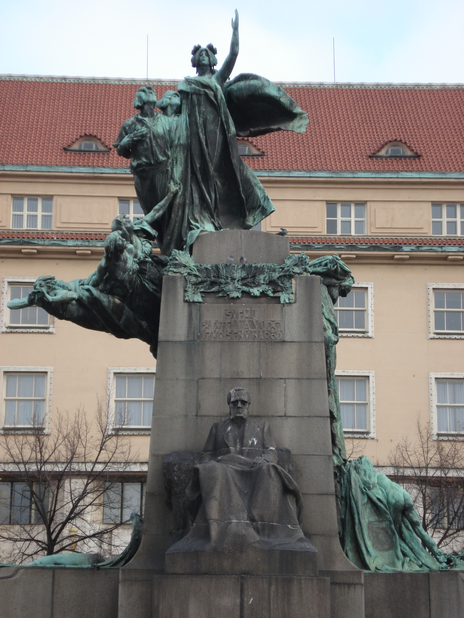 Monument to František Palacký in Palackého naměstí, Prague.